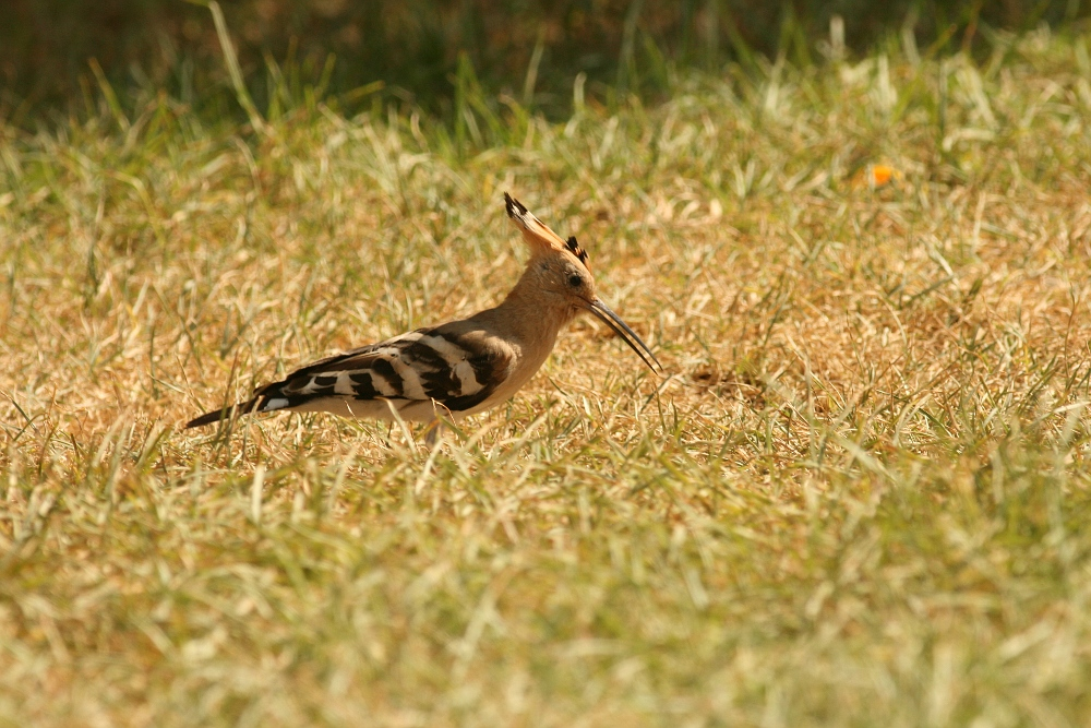 A hoopoe (Upupa epops) searching for food. Westbank.